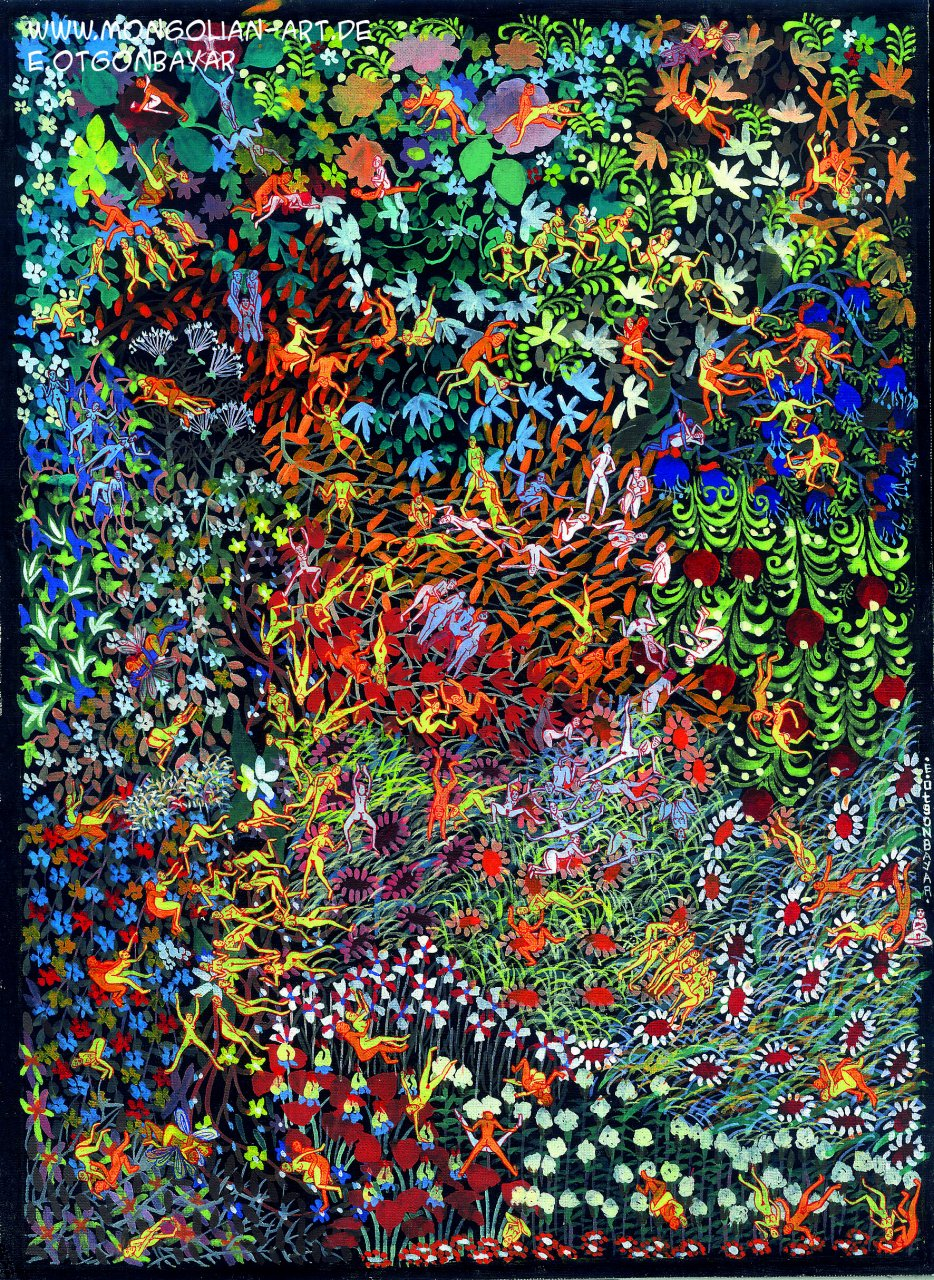 Paradise -02 Tempera on cotton, 21x30cm, Ulaanbaatar 2003, Otgonbayar Ershuu